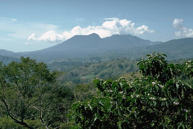 Tecuamburro, seen here from the north, is a small, forested stratovolcano or lava-dome complex of mostly Pleistocene age.